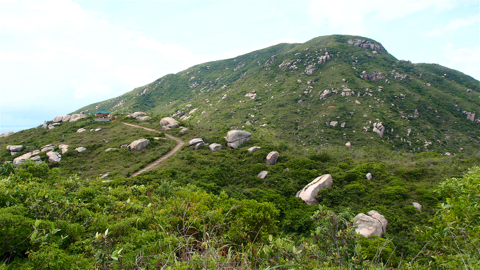 菱角山的山路